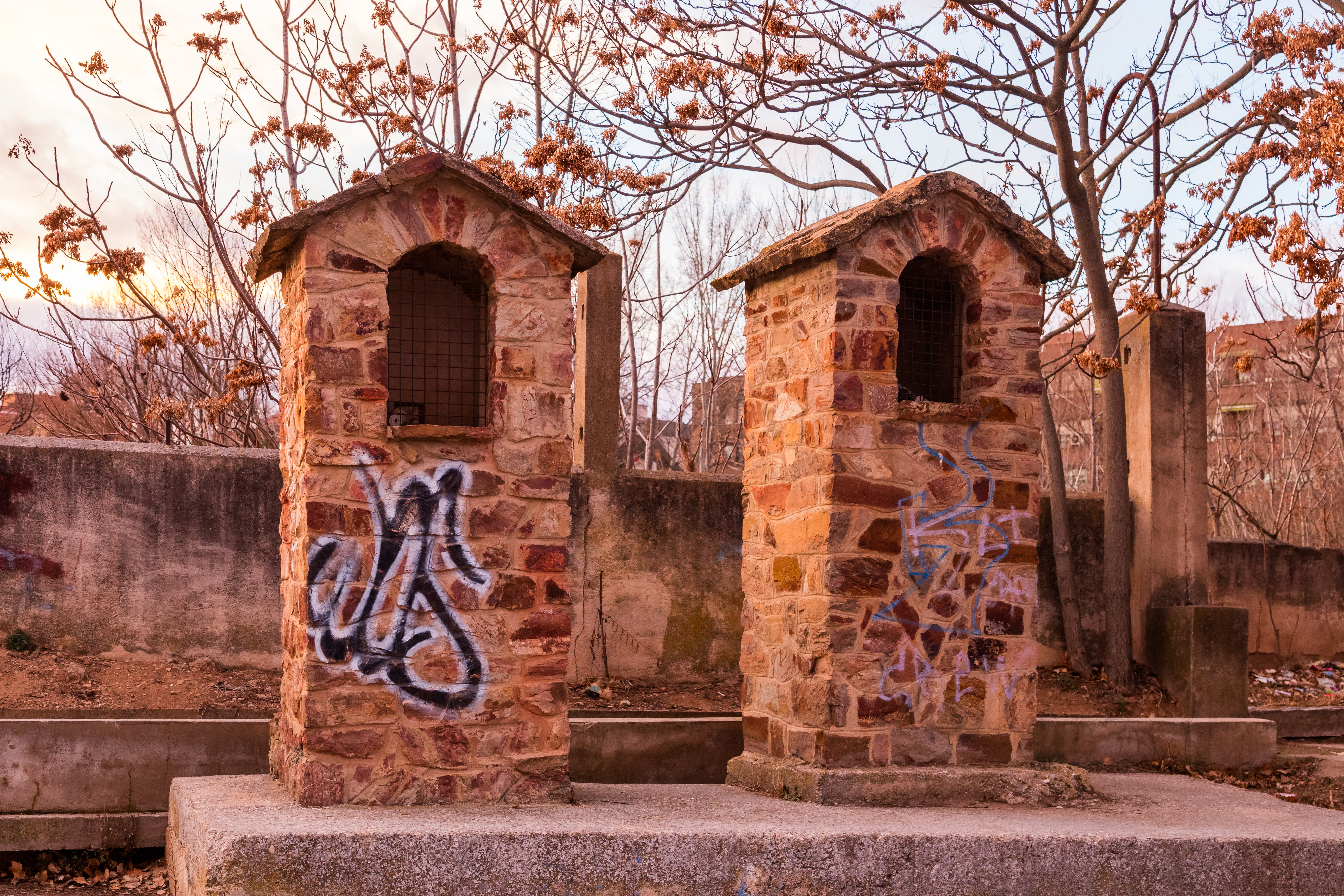 Wayside crosses of the Virgen of Pilar and of Saint Roque, Calatayud, Spain